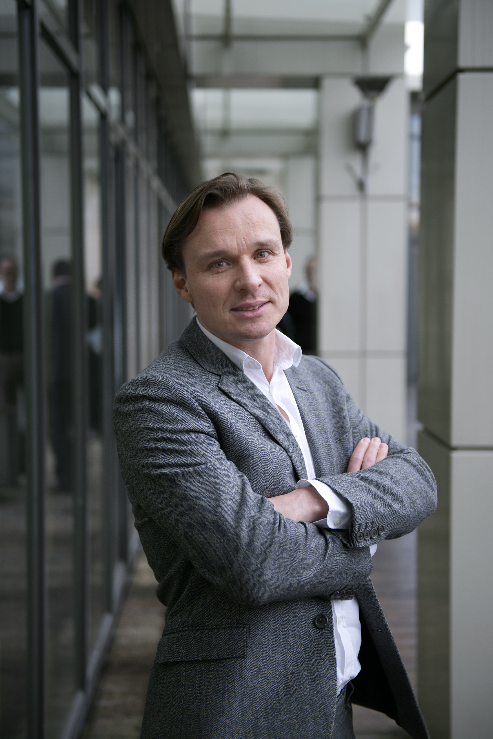 Bruno Vanobbergen, Children's Rights Commissioner